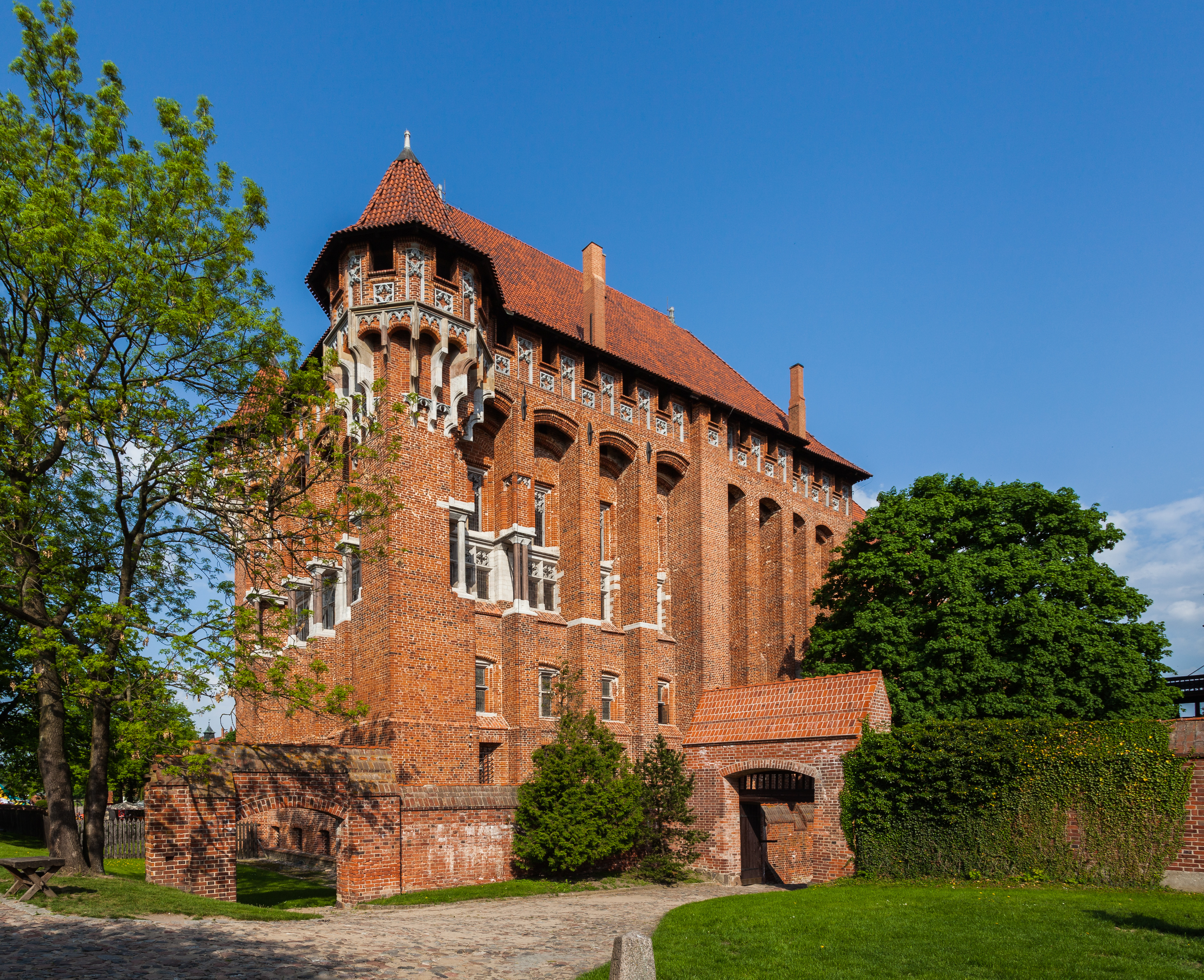 Malbork Castle, Poland